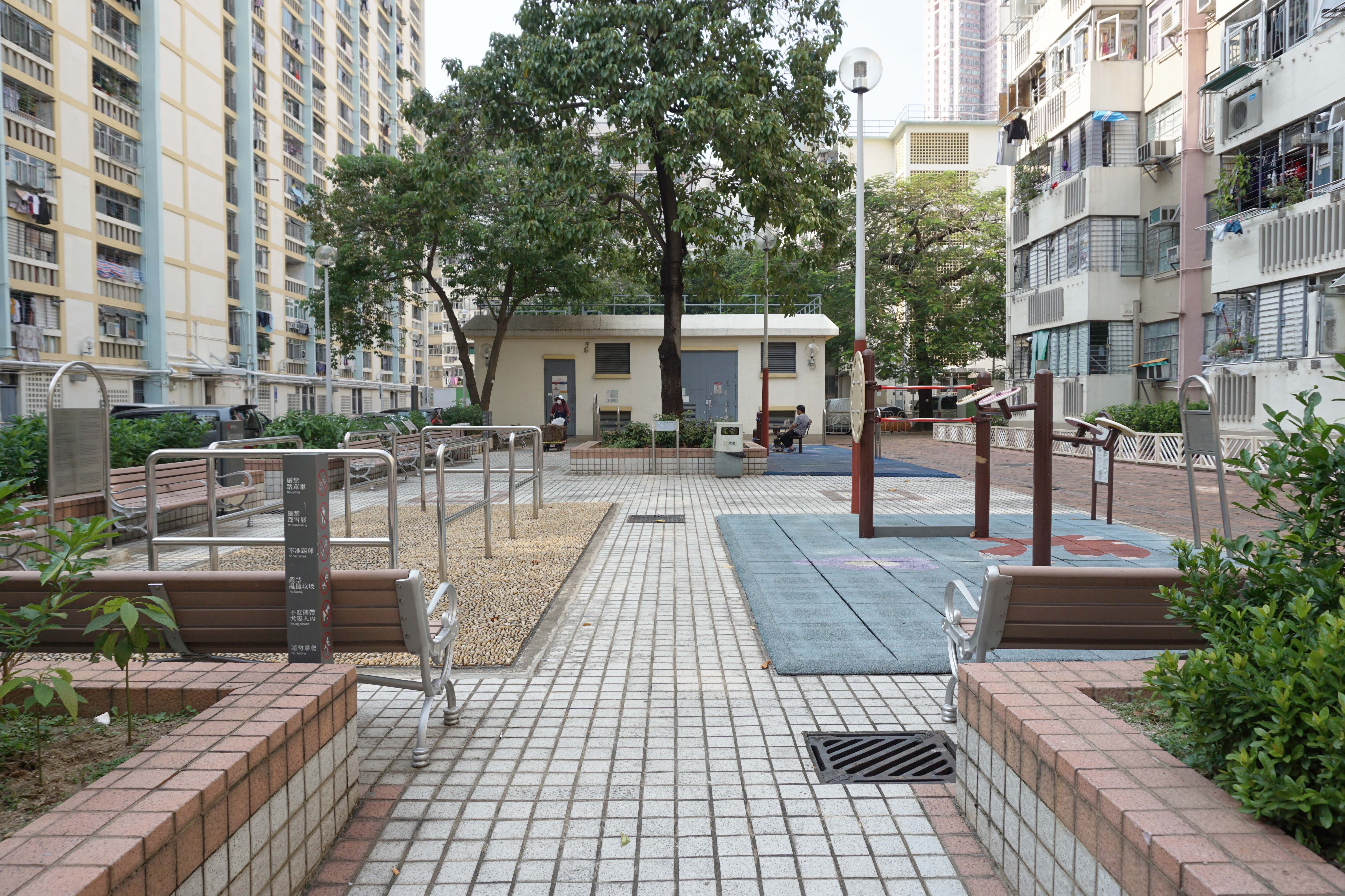 Fuk Loi Estate in Tsuen Wan, Hong Kong.